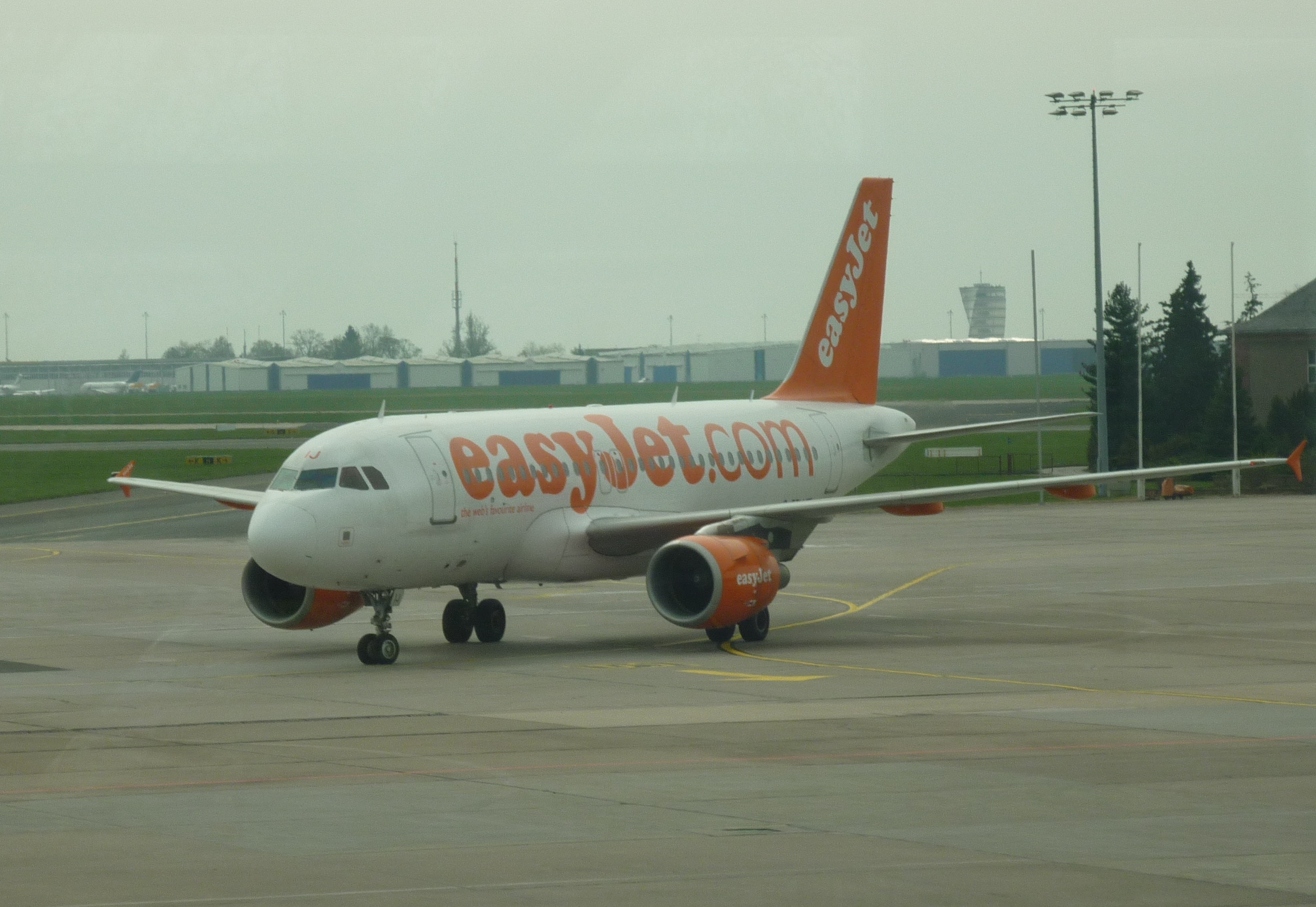 Easyjet Airbus A319-100 G-EZIJ taxing at Schönefeld Airport, Germany.